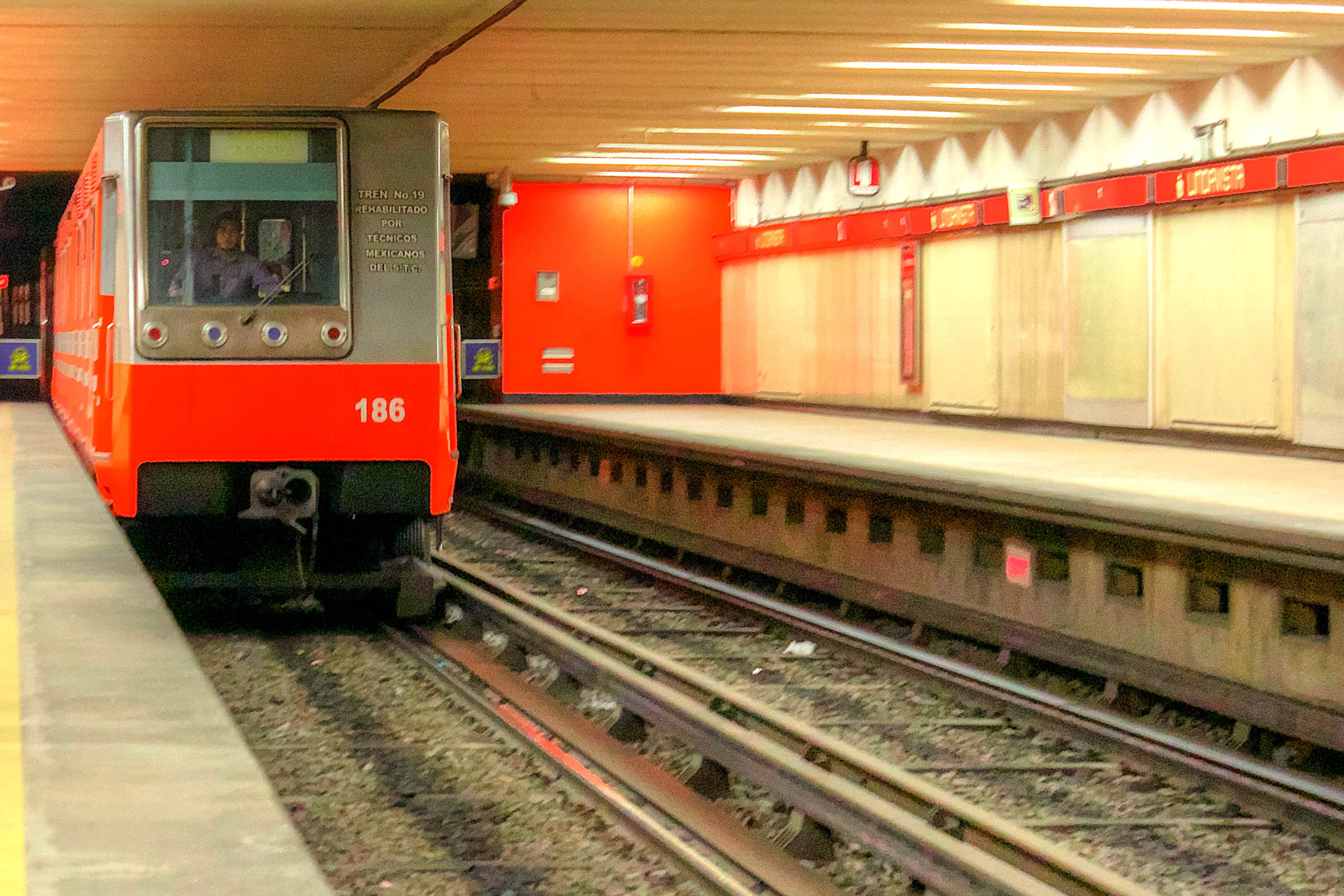 500px provided description: The wheels of Mexico Year 2015 [#hdr ,#city ,#color ,#travel ,#light ,#train ,#underground ,#subway ,#station ,#photography ,#metro ,#suburban ,#suburbano ,#2015]